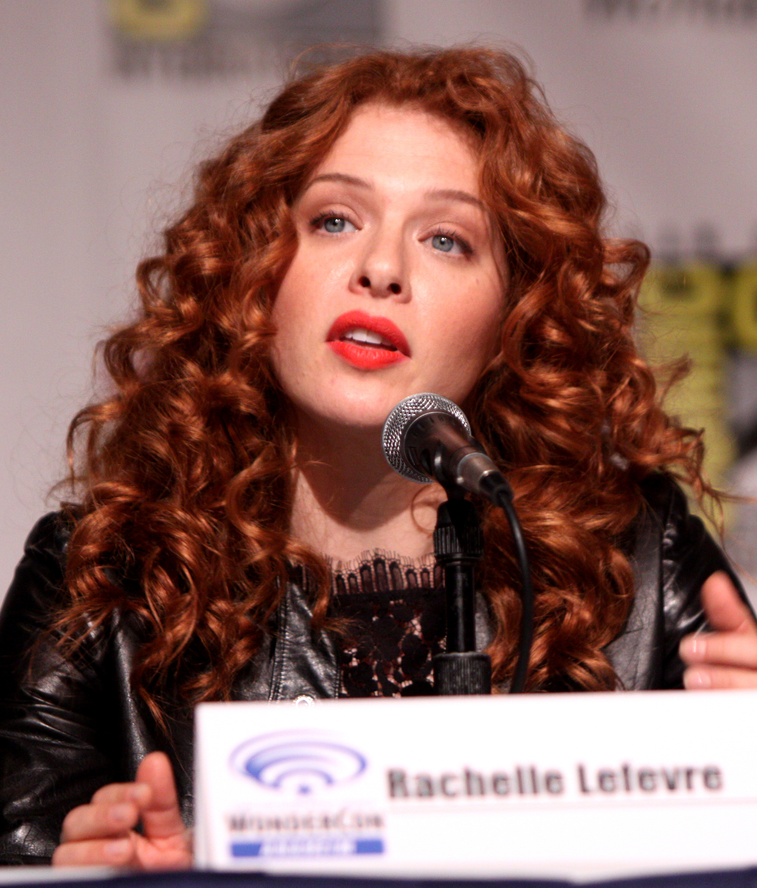 Rachelle Lefevre speaking at the 2013 WonderCon in Anaheim, California on March 30, 2013.